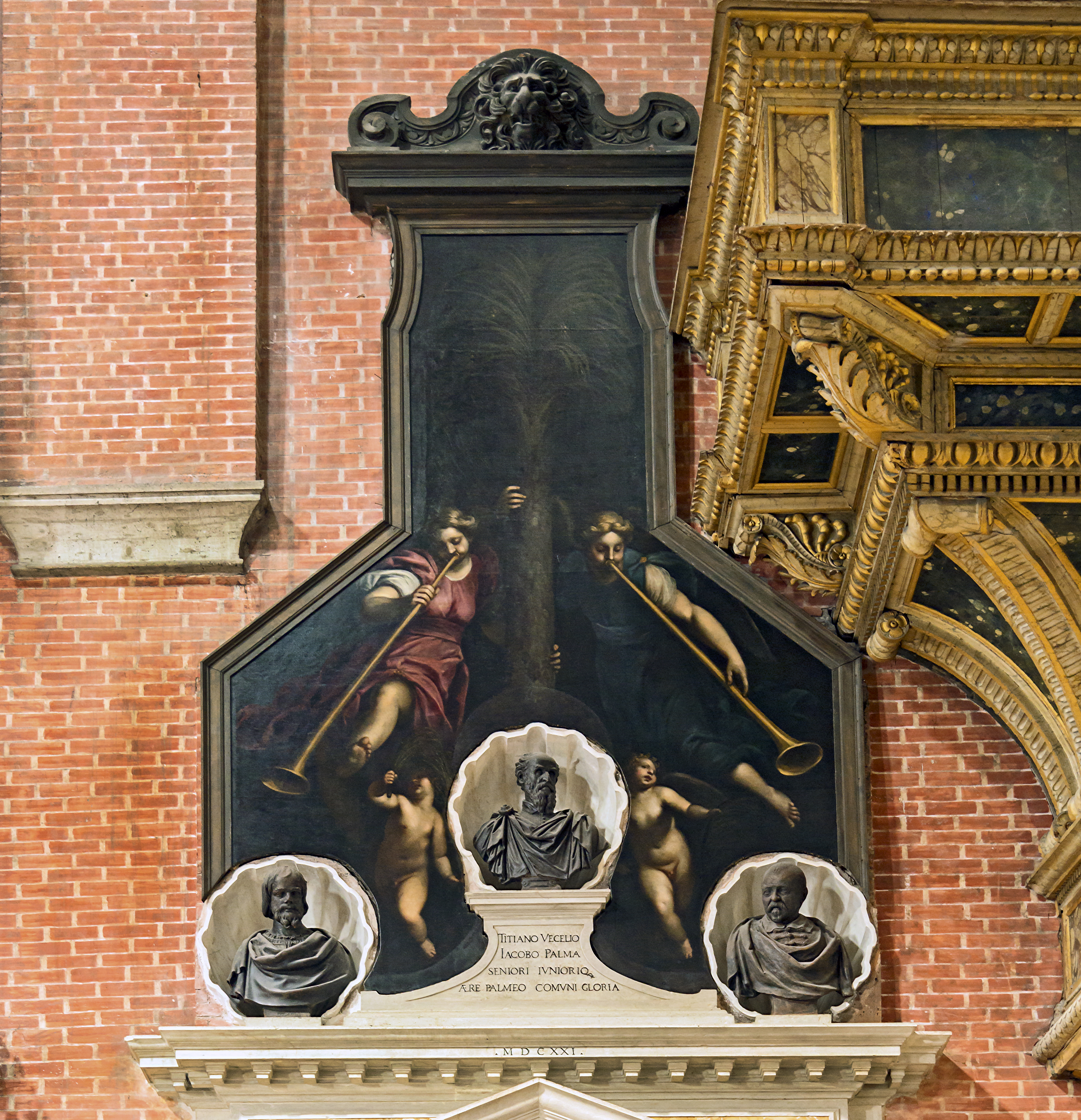 Santi Giovanni e Paolo in Venice. Monumentto to Palam il Giovane, Palma il Vecchio and Titian by Jacopo Albarelli.